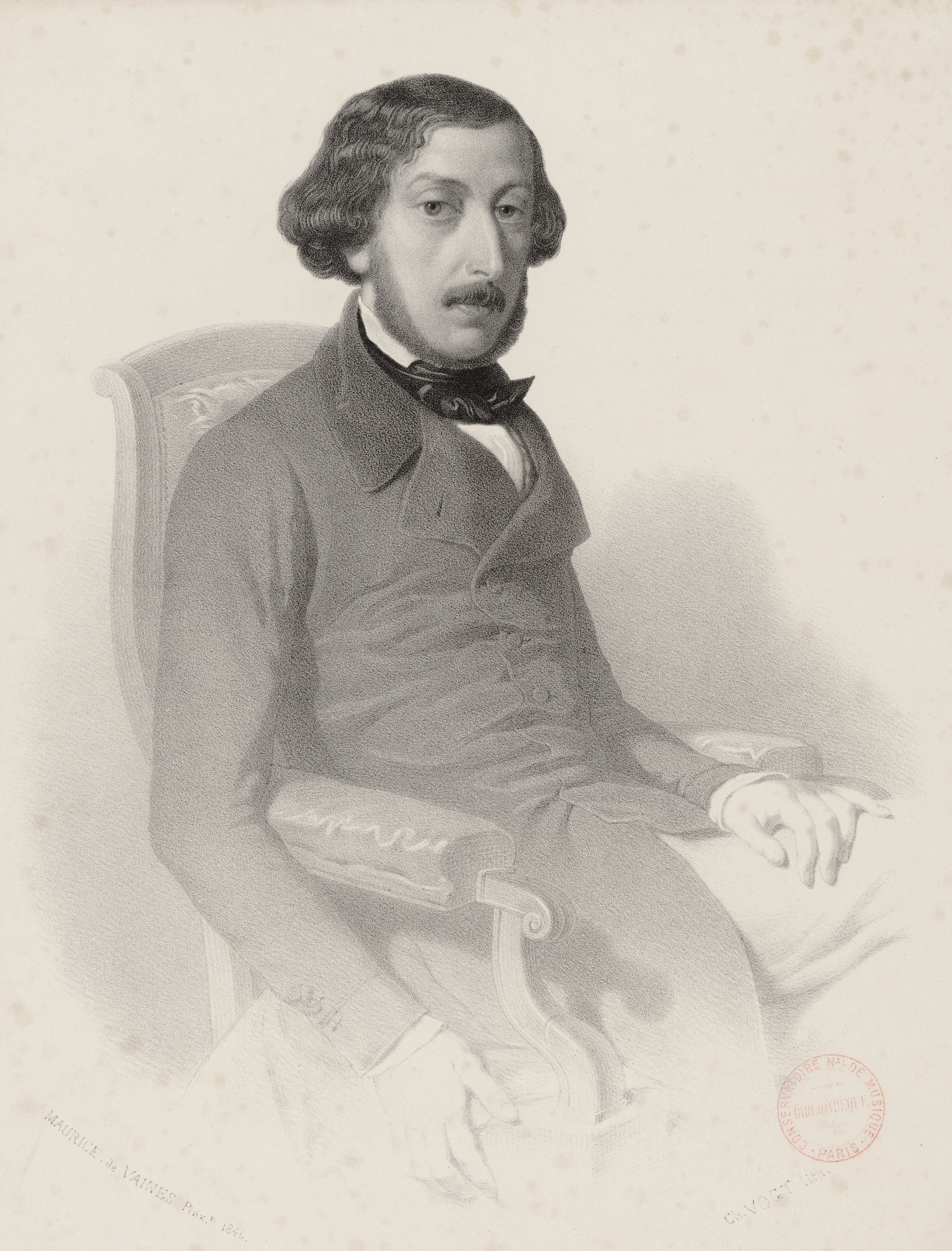 Hungarian pianist and composer Stephen Heller (1813-1888) by Charles Vogt after Maurice de Vaines